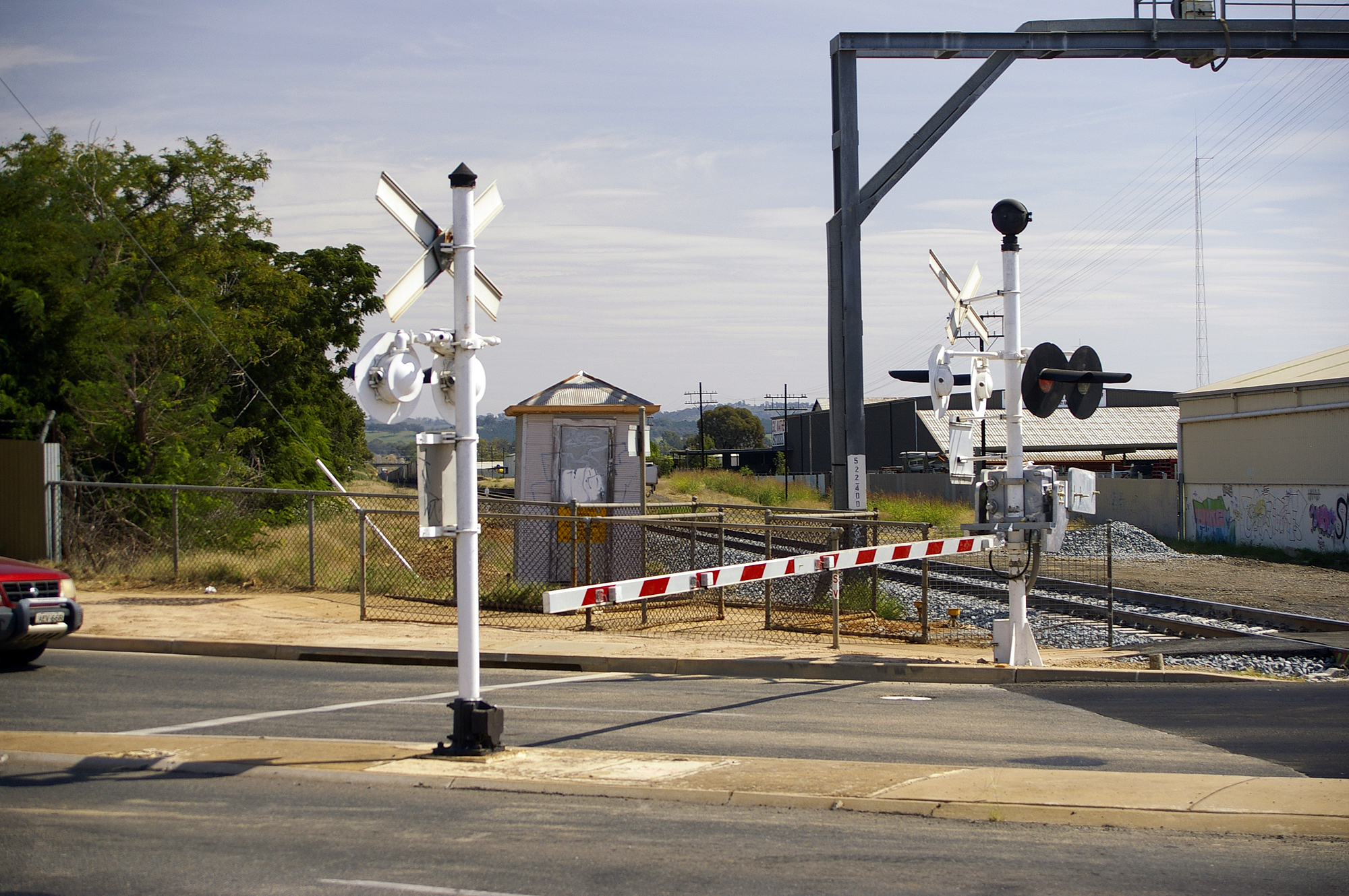 Bourke/Docker Street level crossing boom gate.